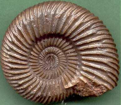 Parkinsonia parkinsoni from Sengenthal, Bavaria. From CD Steinbruch Sengenthal kindly donated by Horst Gradl, Nürnberg